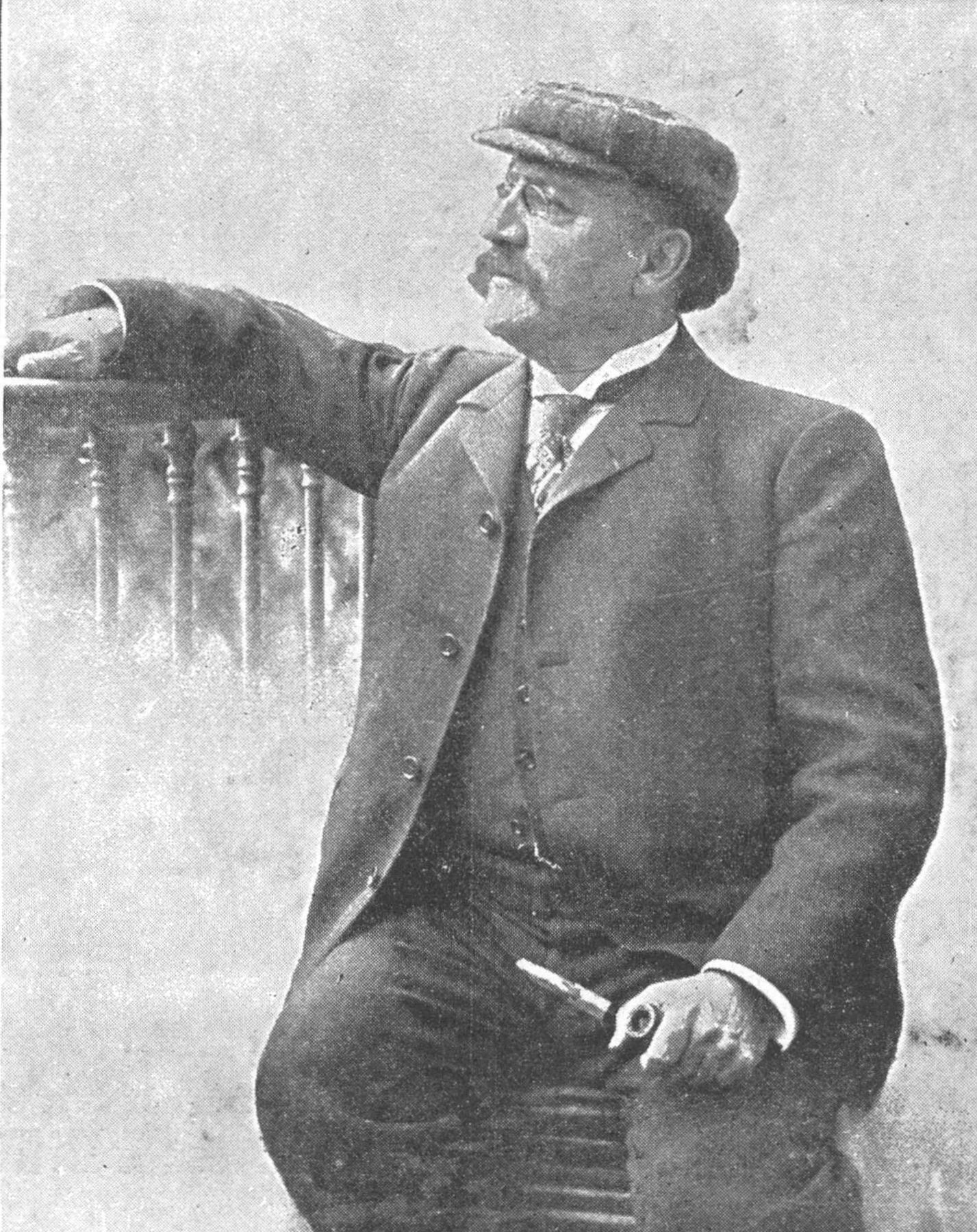 Robert Planquette (1848–1903); French composer